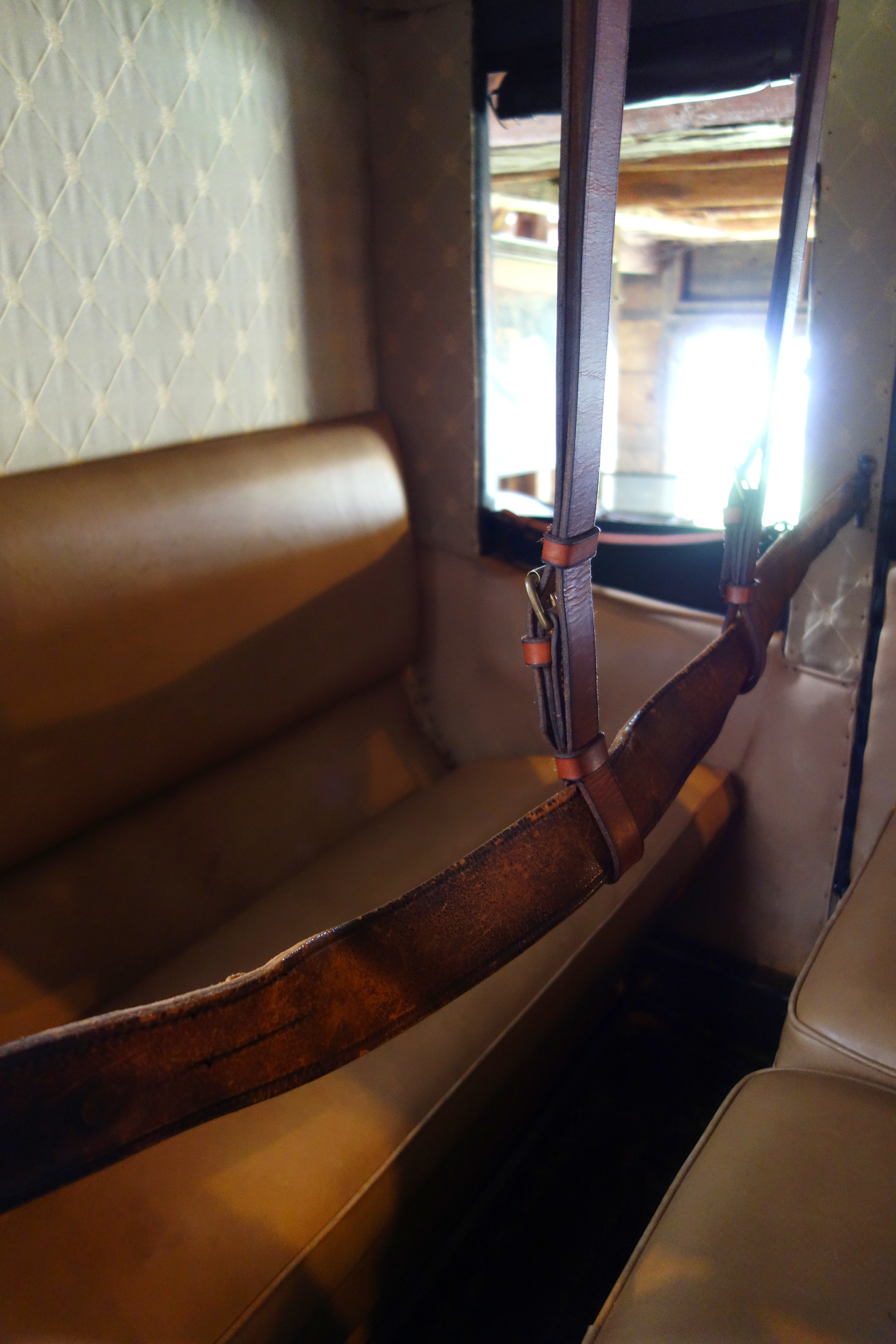 Exhibit in the Hadley Farm Museum, Hadley, Massachusetts, USA. The museum allowed photography without restriction.